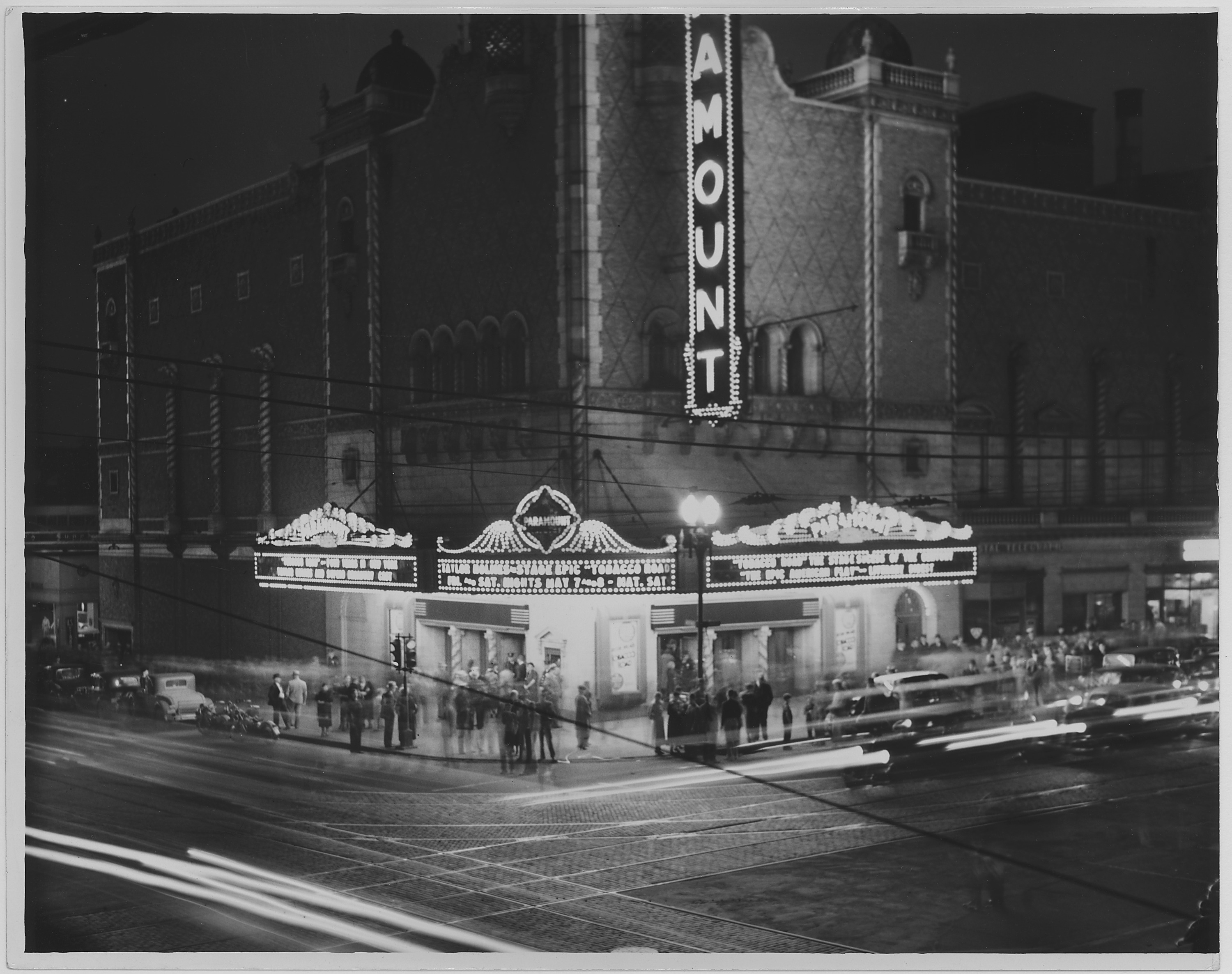 Scope and content: Exterior view; interior view of the stage; crowd lined up to buy tickets. The picture showing is Tobacco Road.